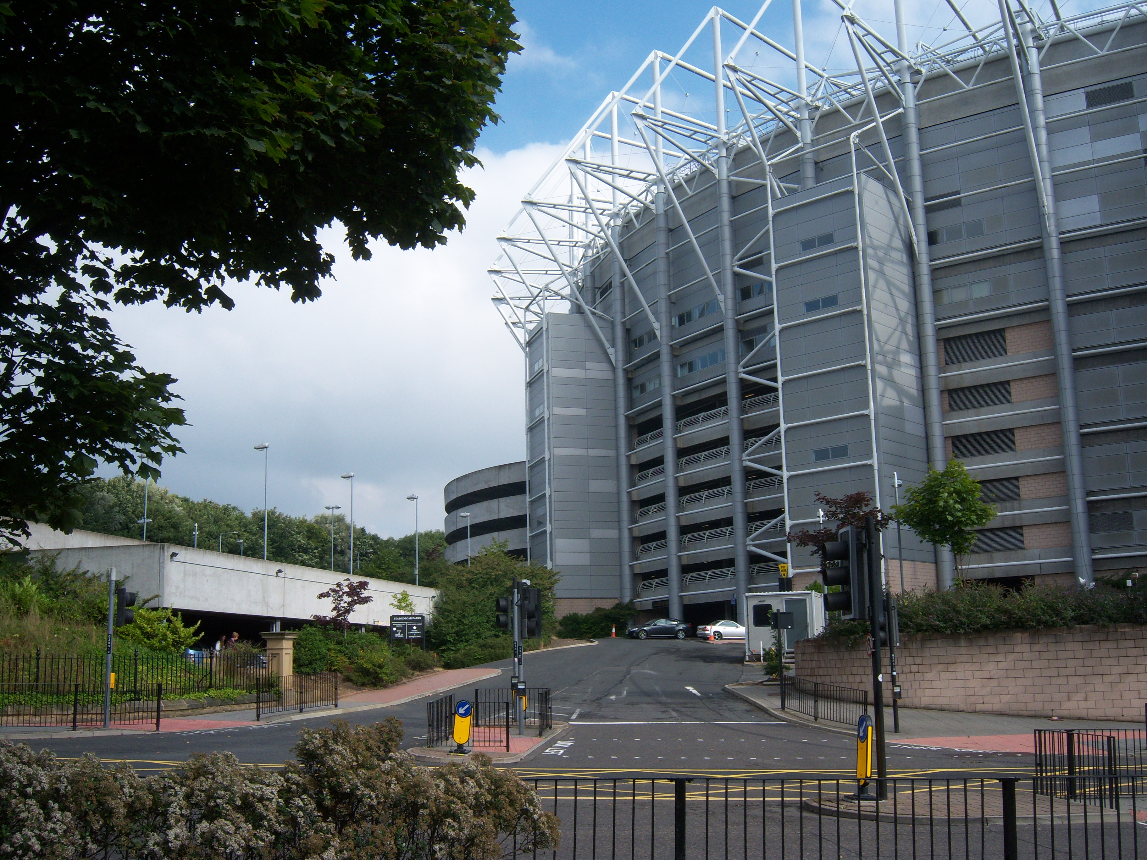 St James' Park football stadium, Newcastle upon Tyne. The view east across Barrack Road into the northern road entrance to the stadium, with the car park on the left, security post on the right, and the north west corner ahead.